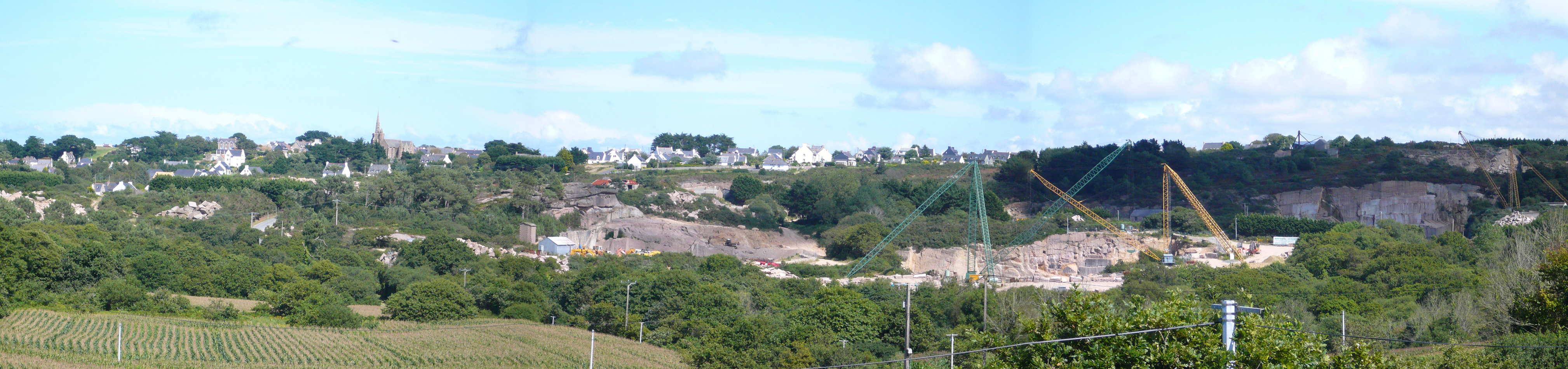 La Clarté, near Perros-Guirec (Brittany, France) and its quarries.